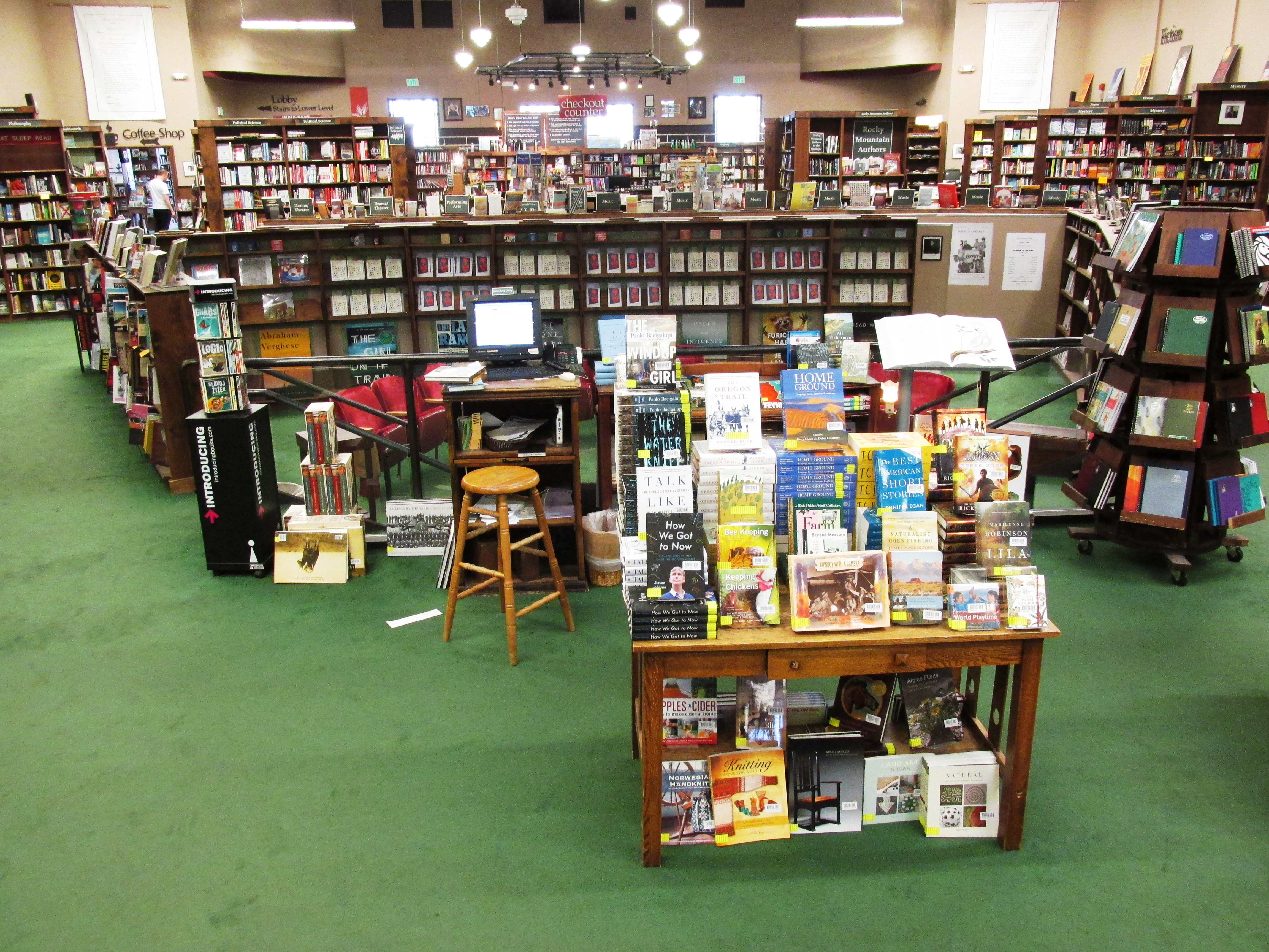 Tattered Cover bookstore at 2526 East Colfax Avenue, Denver, Colorado. This is a great bookstore, well worth visiting if you are in the Denver area. After some garden tours in the nearby Denver Botanic Garden, I spent a few pleasant hours browsing (and buying) books here. sw16 211